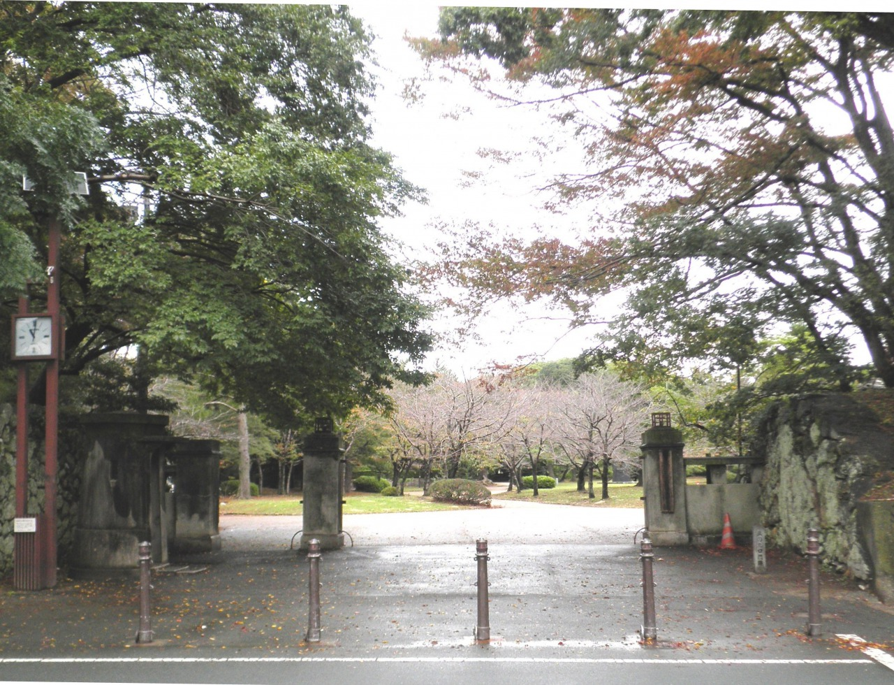 The Main Gate of the Toyohashi Park. The Site of the main gate of the base of the Imperial Japanese Army 18th Infantry Regiment.